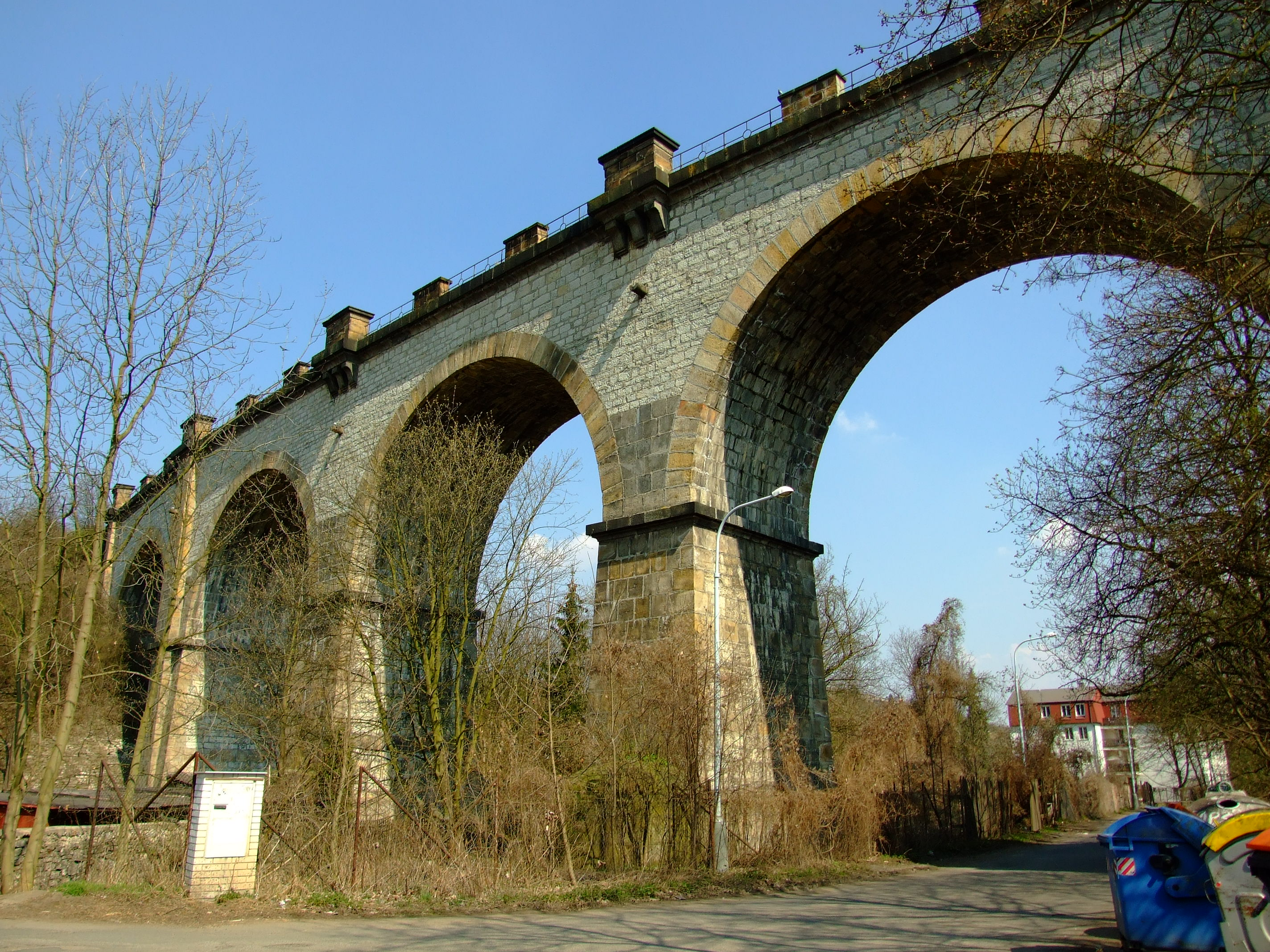 Prague, Prokopské údolí valley, rail bridge (mid 19th century)help